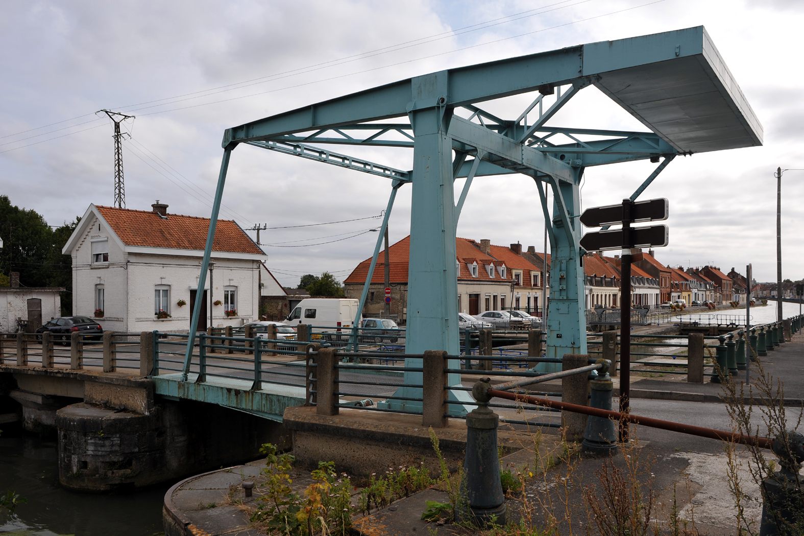 Bascule bridge over the Aa channel, Saint-Omer; Pas-de-Calais, France.